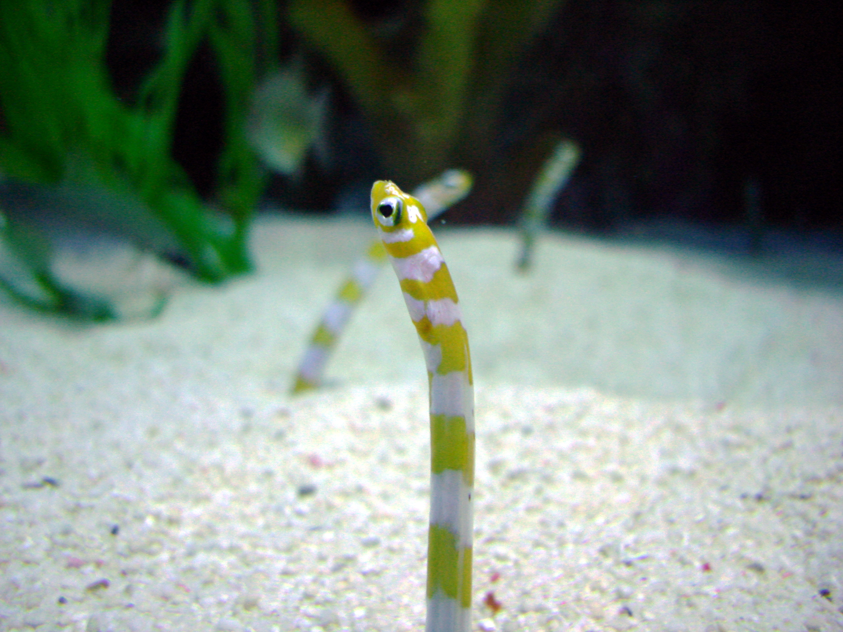 This picture of a Splendid Garden Eel Gorgasia preclara was taken by me at the Wild Reef exhibit of the Shedd Aquarium in Chicago on October 12th, 2007.